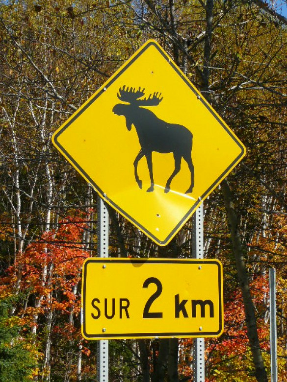 Road warning sign, Québec, 2008.